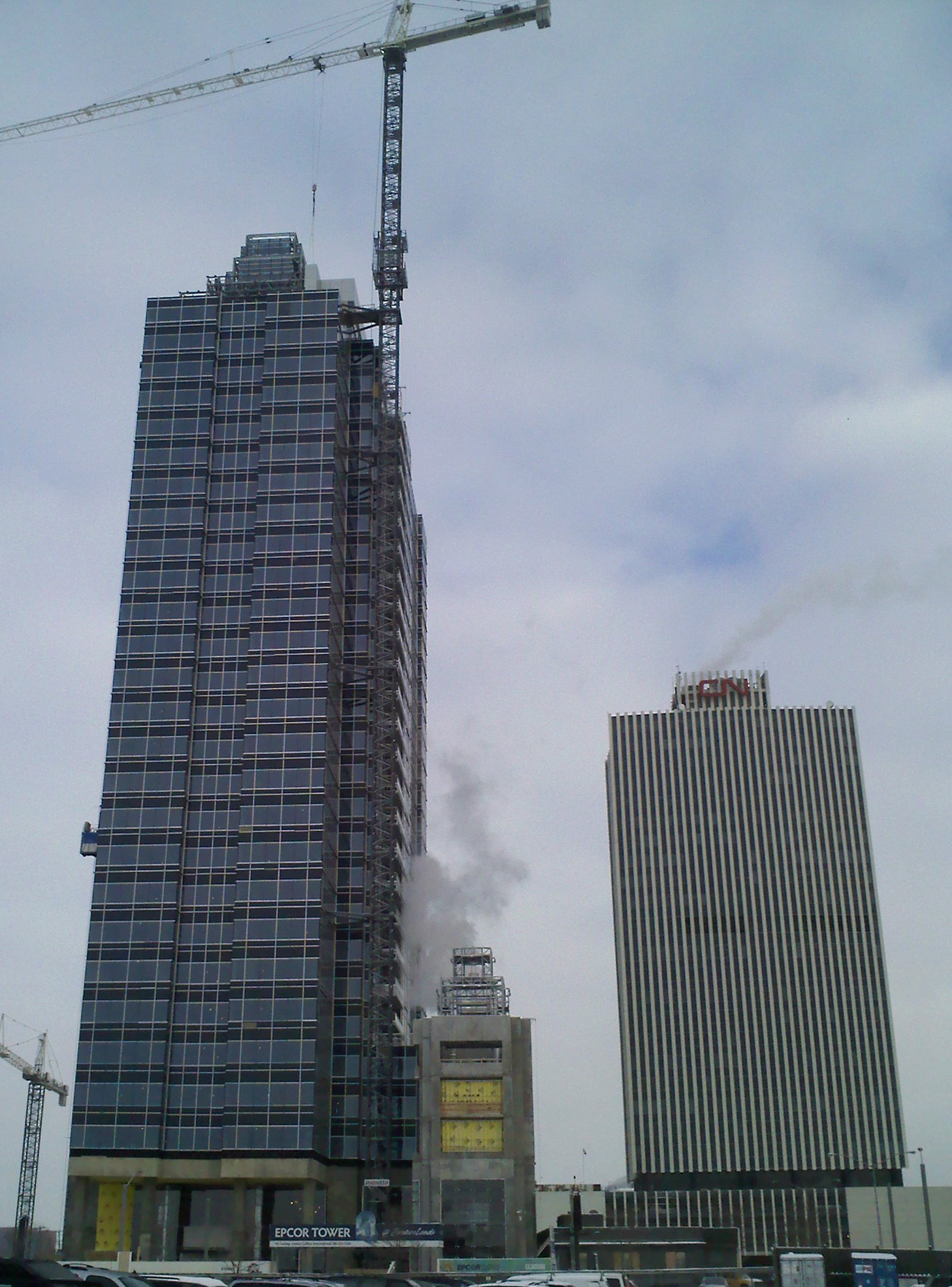 West sides of EPCOR Tower and CN Tower, Edmonton, from a parking lot west of 101 Street.